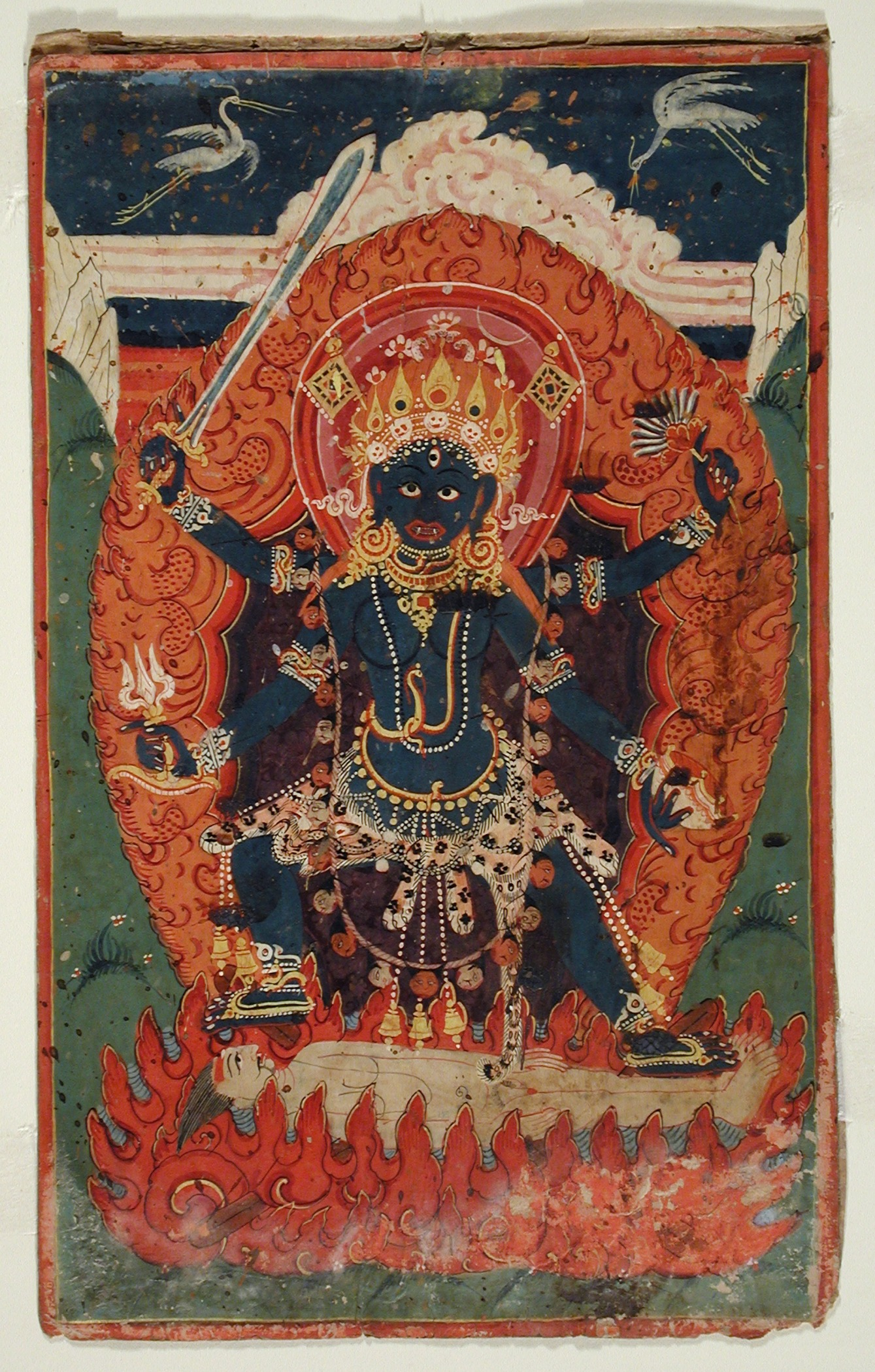 Nepal, 18th century Drawings; watercolors Opaque watercolor on paper Gift of Dr. and Mrs. Robert S. Coles (M.81.206.8) South and Southeast Asian Art